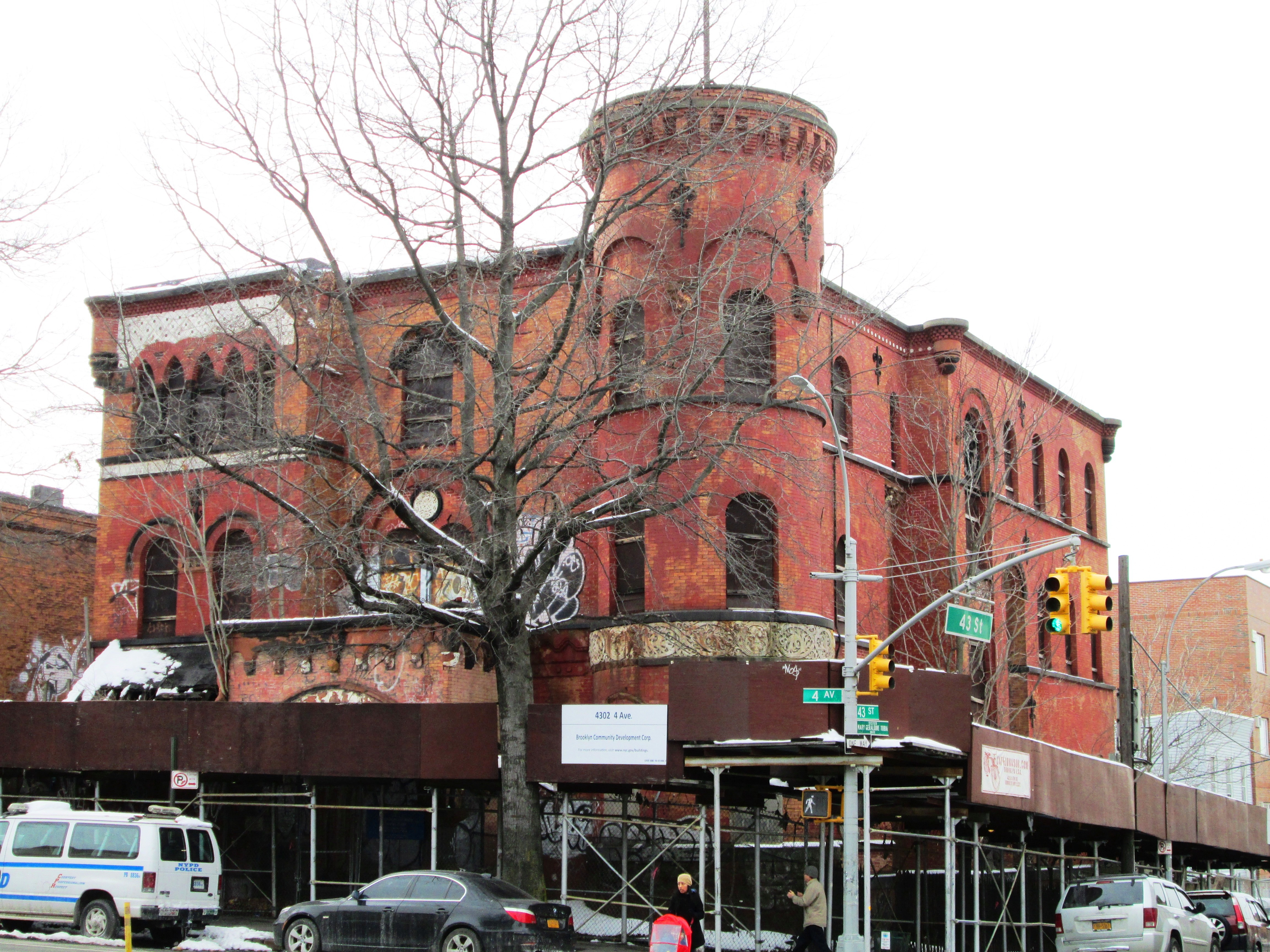 The former Brooklyn Police Department 18th Police Precinct Station House and Stable at 4302 4th Avenue at the corner of 43rd Street, which later became the NYPD's 68th Precinct Station House and Stable, was built in 1890-92 and was designed by George Ingram in the Romanesque Revival style to resemble a medieval fortress, something Ingram did for a number of police stations in Brooklyn. The building was bought by the Sunset Park School of Music, but as of 2015 was still under reconstruction. (Sources: Guide to NYC Landmarks (4th ed.), AIA Guide to NYC (5th ed.)}